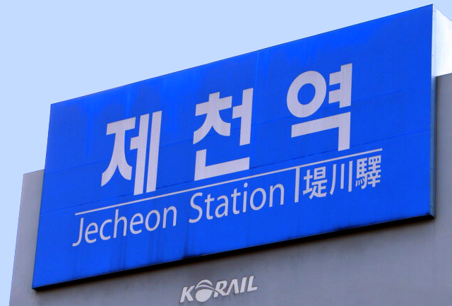 Jecheon Korail train station sign